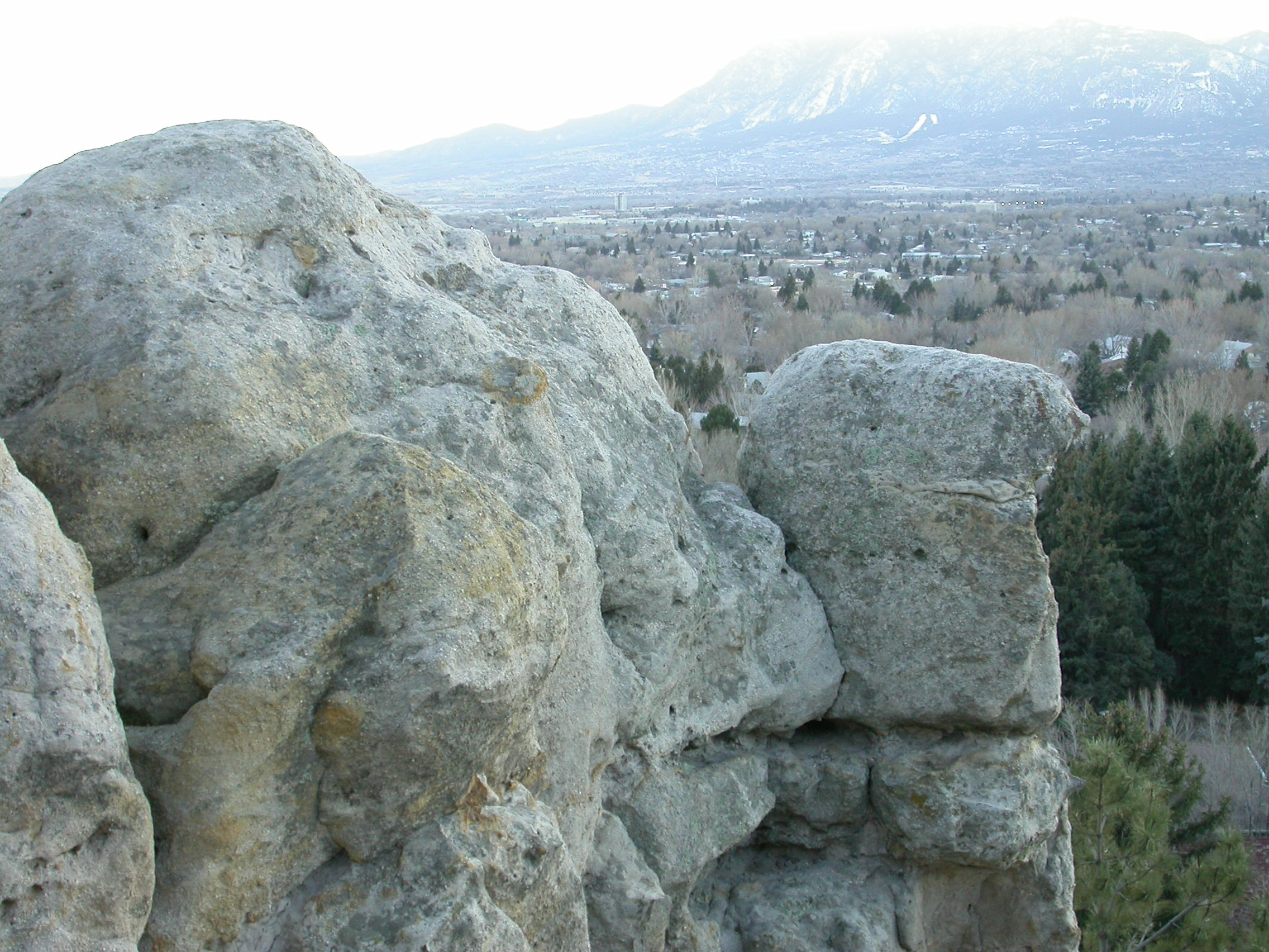 A view towards downtown Colorado Springs from the higher elevation of Palmer Park